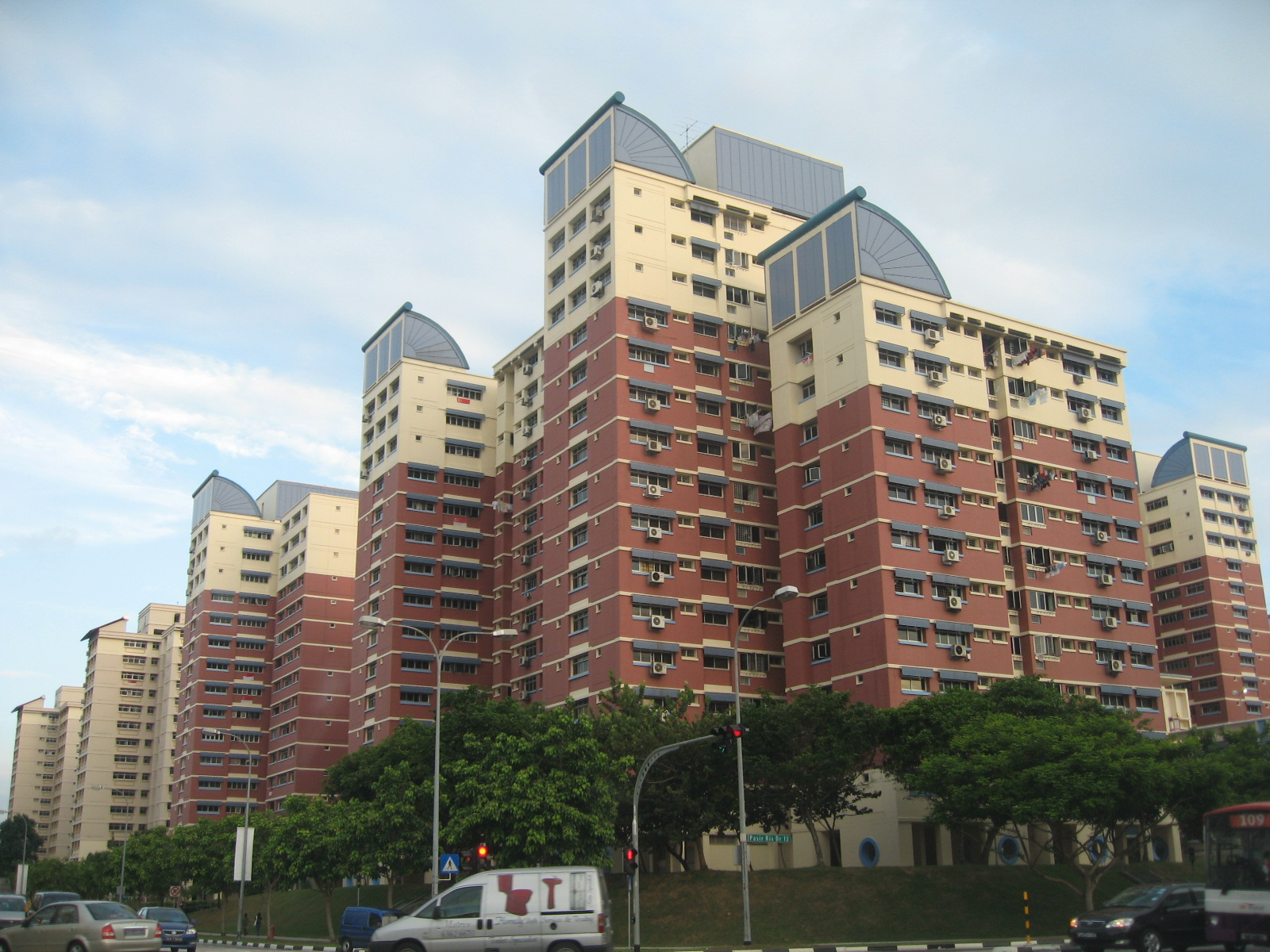 HDB flats at Pasir Ris New Town.